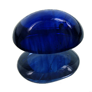 Sapphire cabochon 8.06cts